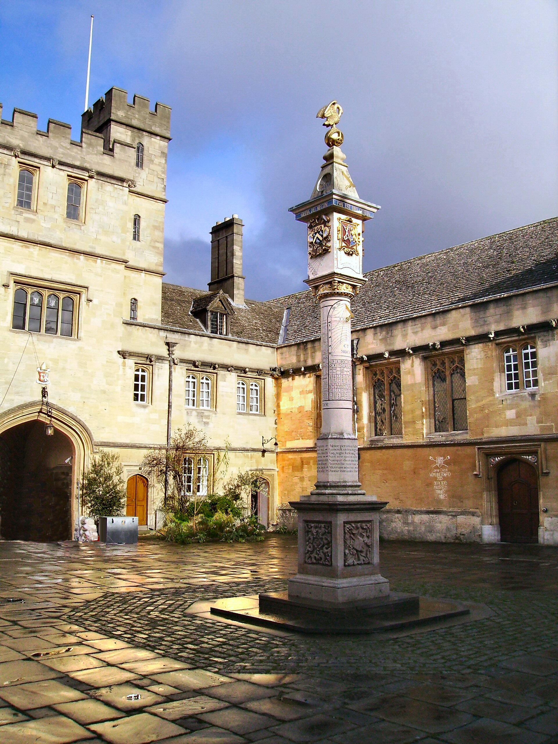 Corpus Christi College, Oxford (United Kingdom)